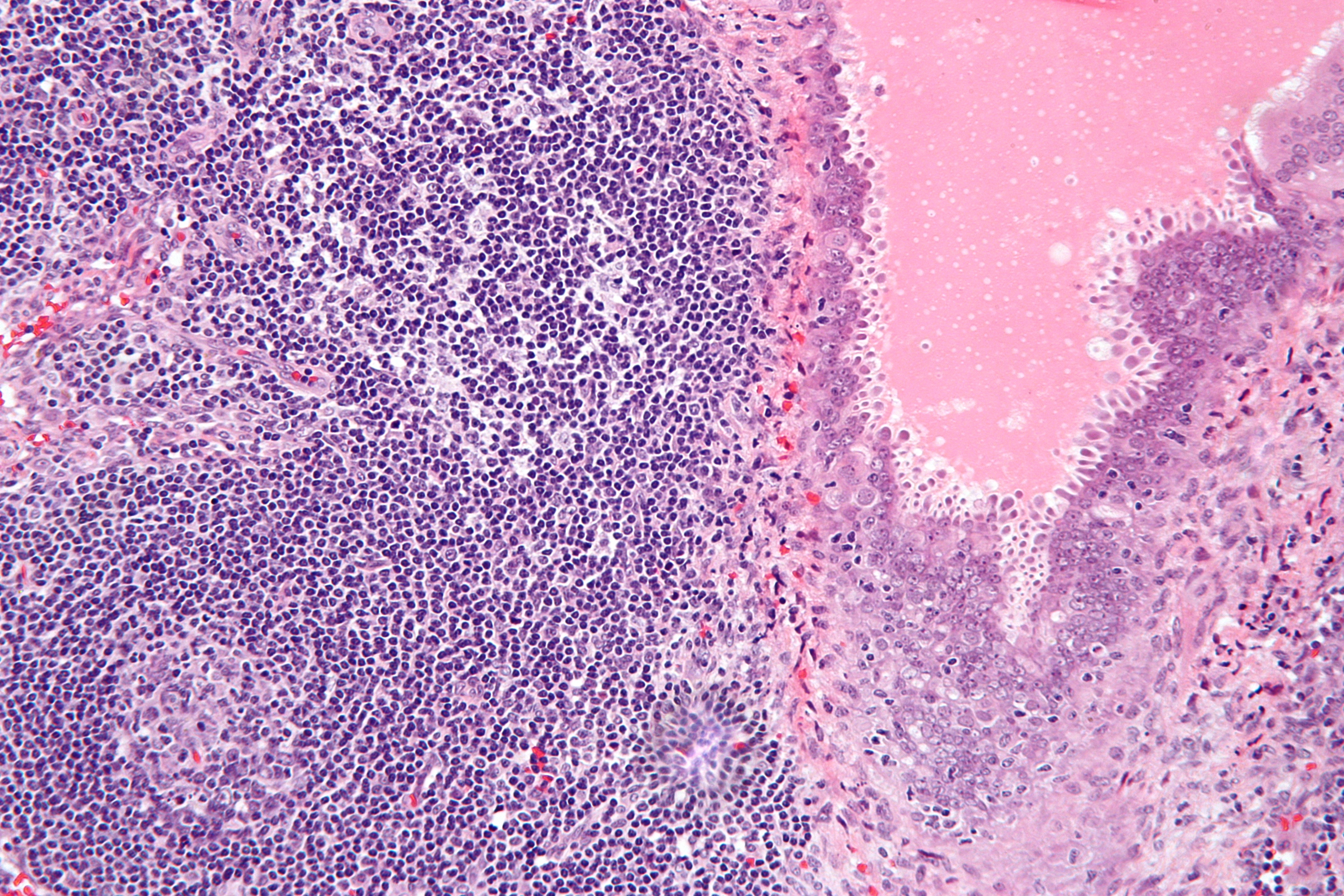 High magnification micrograph of endosalpingiosis in a lymph node. H&E stain. In a lymph node, endosalpingiosis may be misinterpreted as a metastasis.[1] The significance of endosalpingiosis is not definitively settled; opinions differ on whether it is (1) associated with pelvic pain,[2] or (2) an incidental finding discovered in the course of investigating something else (pelvic pain, menstrual irregularities, infertility).[3] Related images Intermed. mag. High mag. High mag. Very high mag. Very high mag. (cropped) References ↑ (Aug 2010). "Endosalpingiosis in axillary lymph nodes: a possible pitfall in the staging of patients with breast carcinoma.". Am J Surg Pathol 34 (8): 1211-6. ↑ (Oct 1997). "Endosalpingiosis and chronic pelvic pain.". J Reprod Med 42 (10): 613-6. ↑ (Jun 2002). "Endosalpingiosis-an underestimated cause of chronic pelvic pain or an accidental finding? A retrospective study of 16 cases.". Eur J Obstet Gynecol Reprod Biol 103 (1): 75-8.